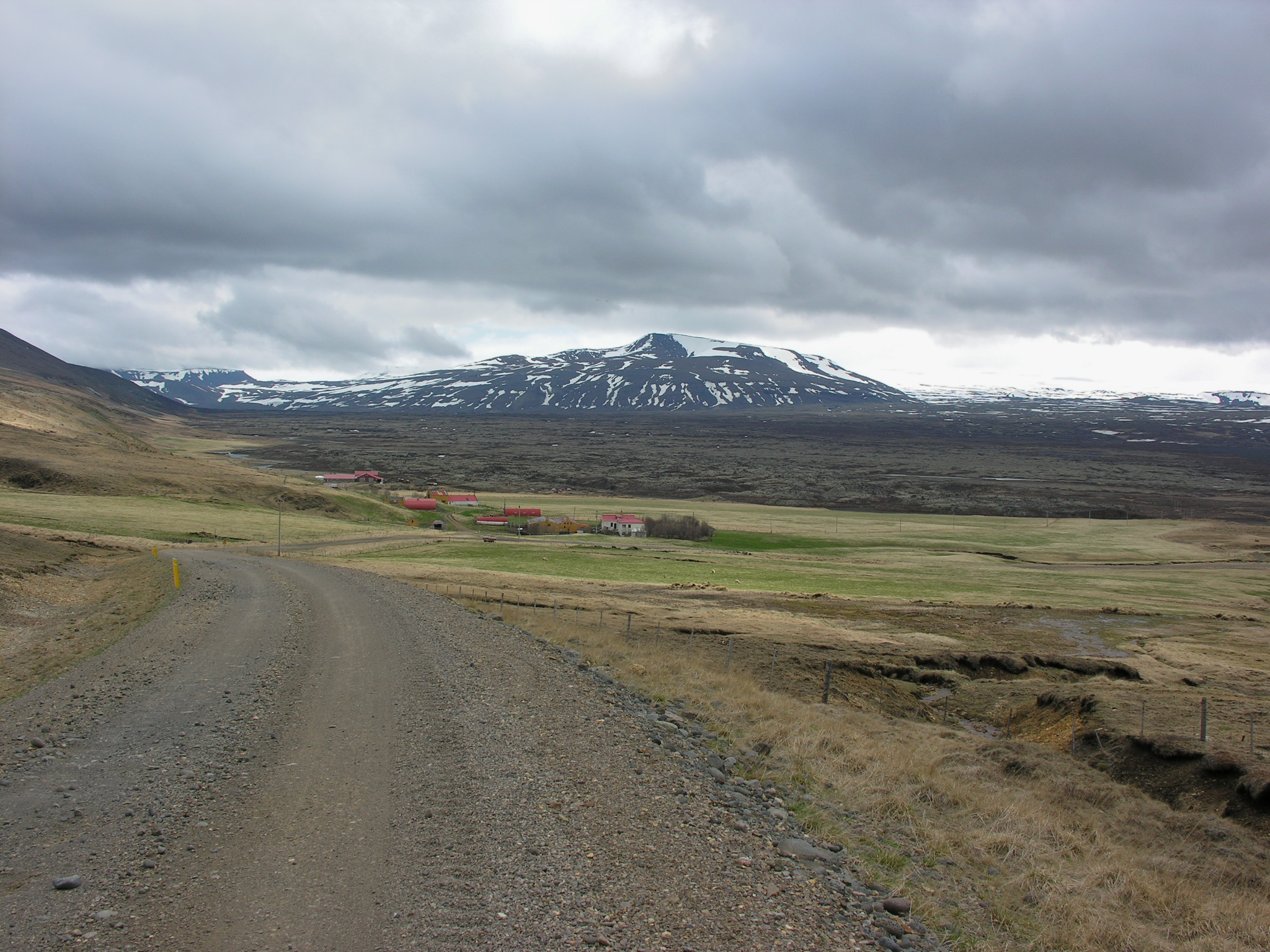 Iceland, view along road 518 in Húsafell